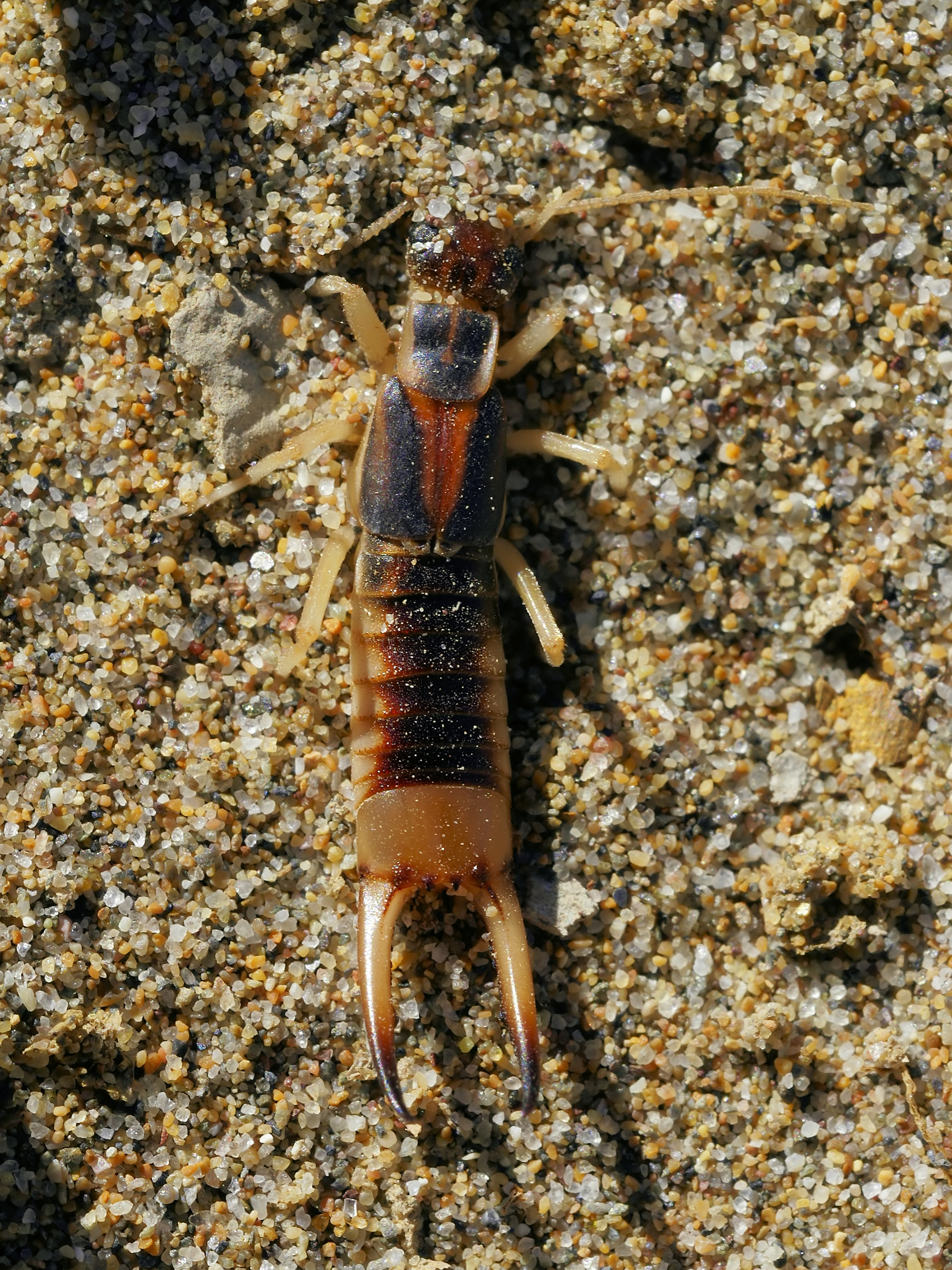 At the Ebro Delta, Spain